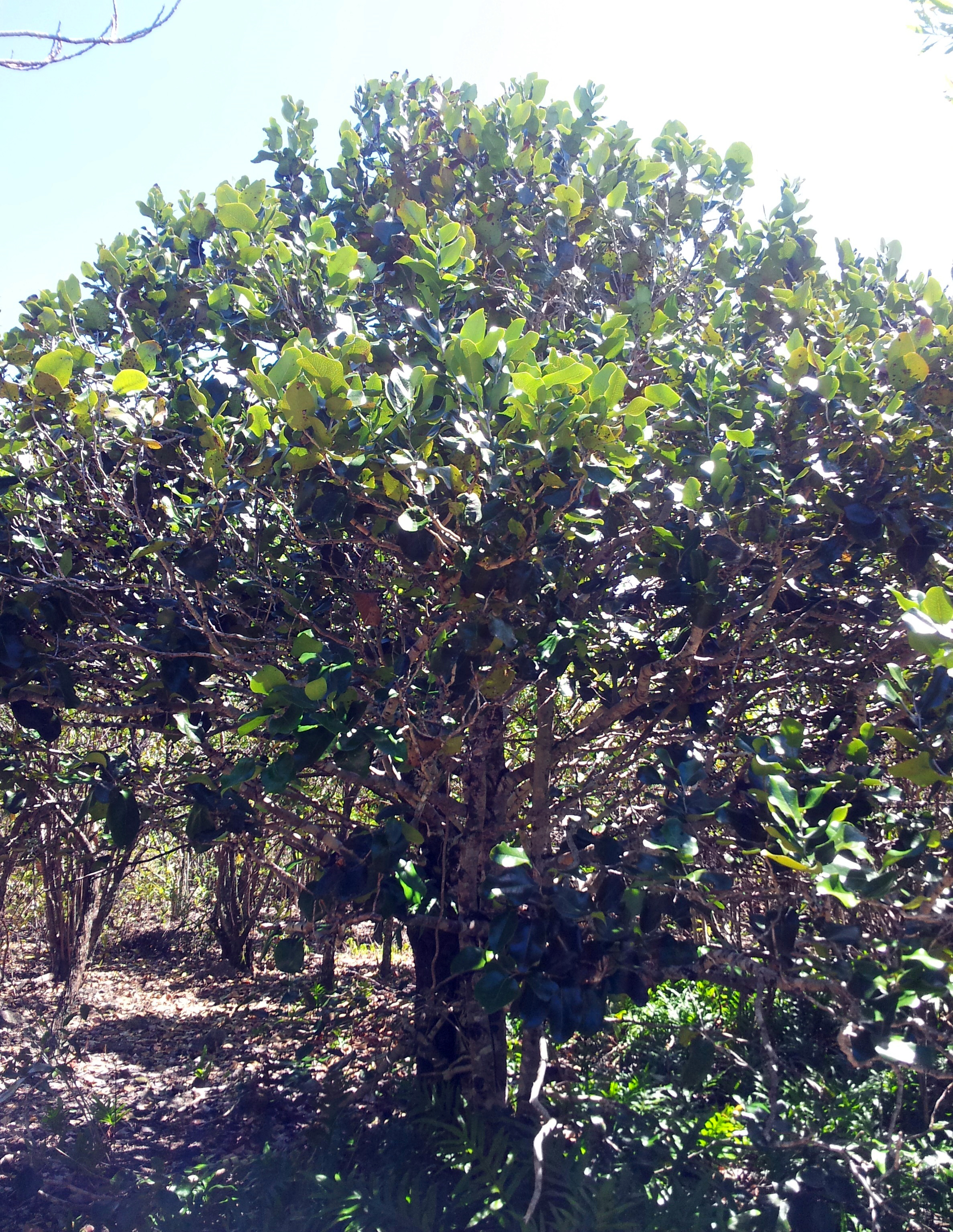 Diospyros egrettarum - a small bois d ebene tree on ile aux aigrettes - Mauritius